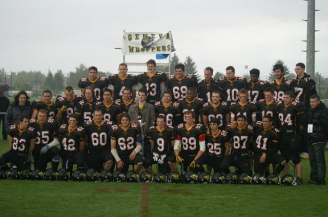 whoppers